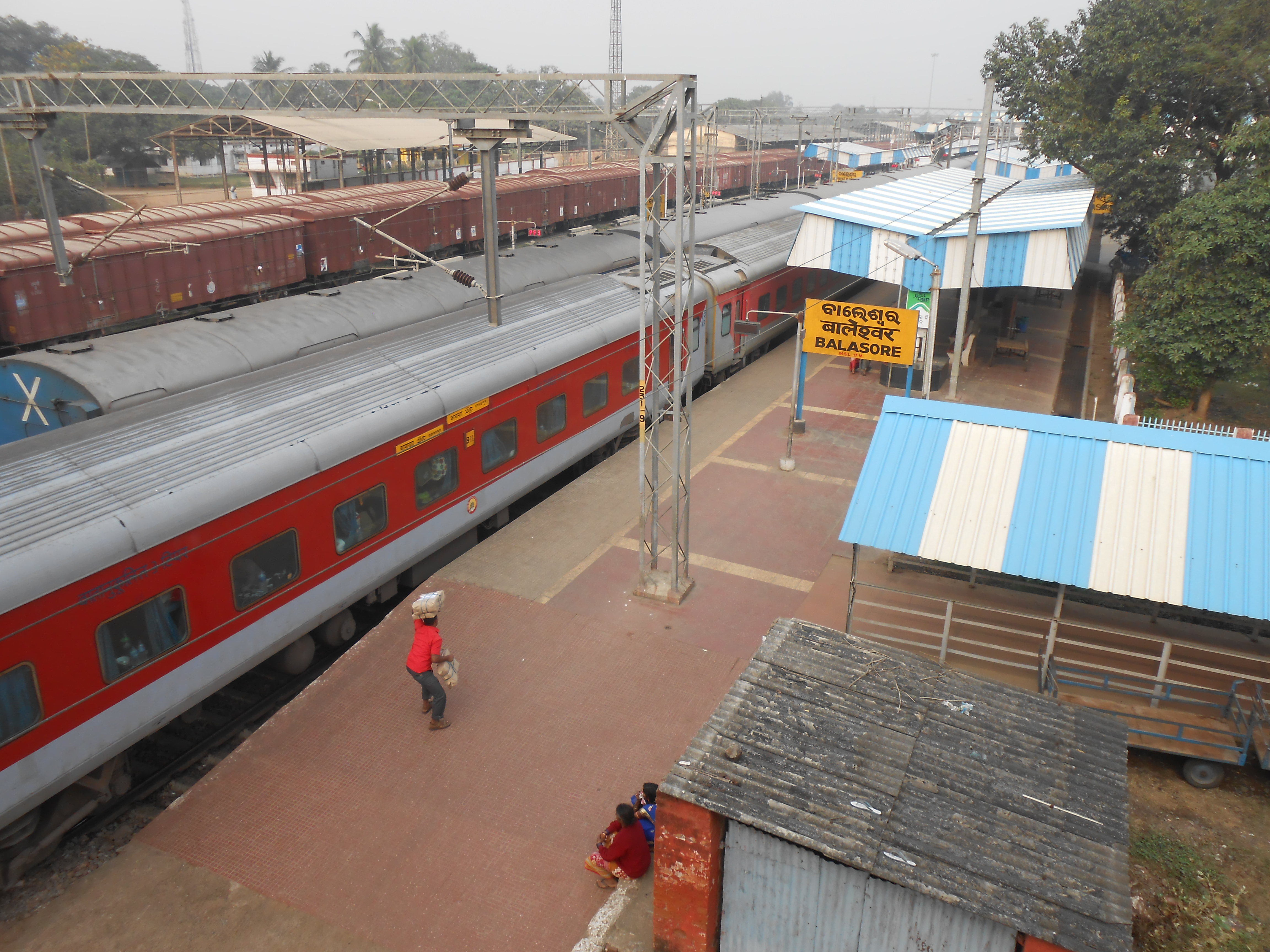 Yesvantpur-Kamakhya AC Superfast Express at Balasore